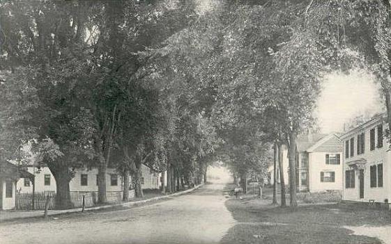 Street Scene, Harrison, ME; from a c. 1905 postcard published by Mrs. J. Lang of Harrison, Maine.